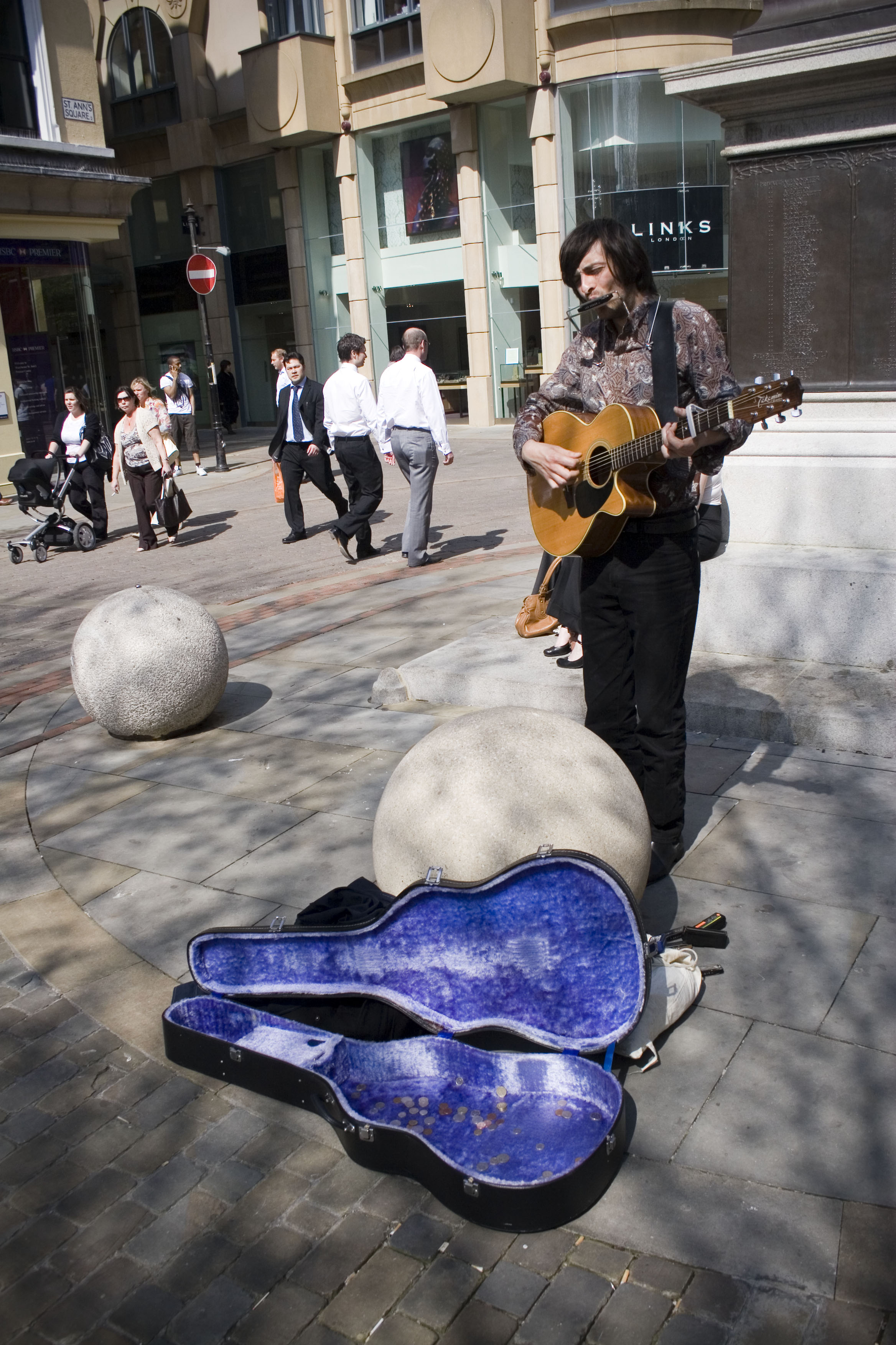 A busker in St Anne's Square, in Manchester.